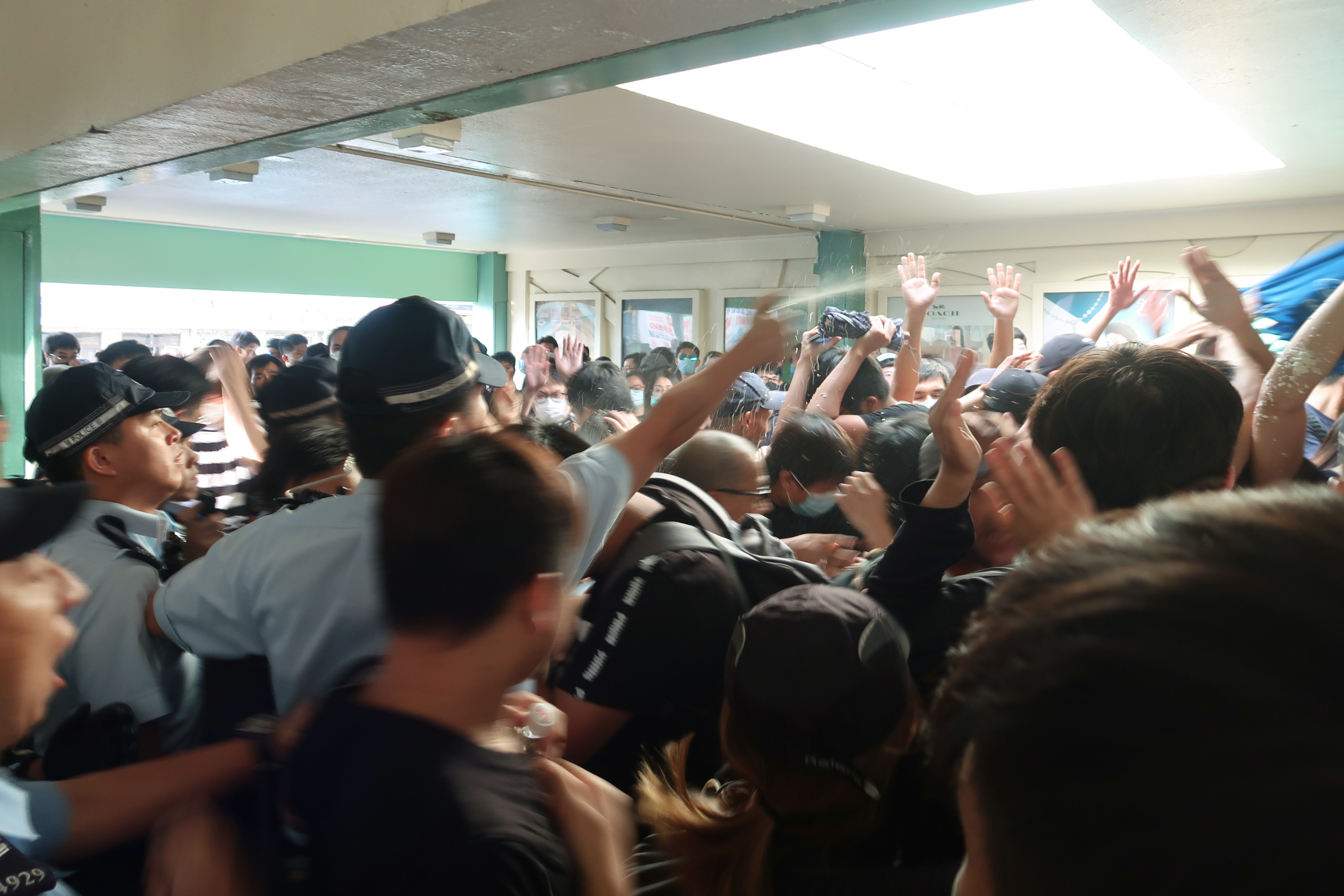 Police release Pepper spray in Landmark North